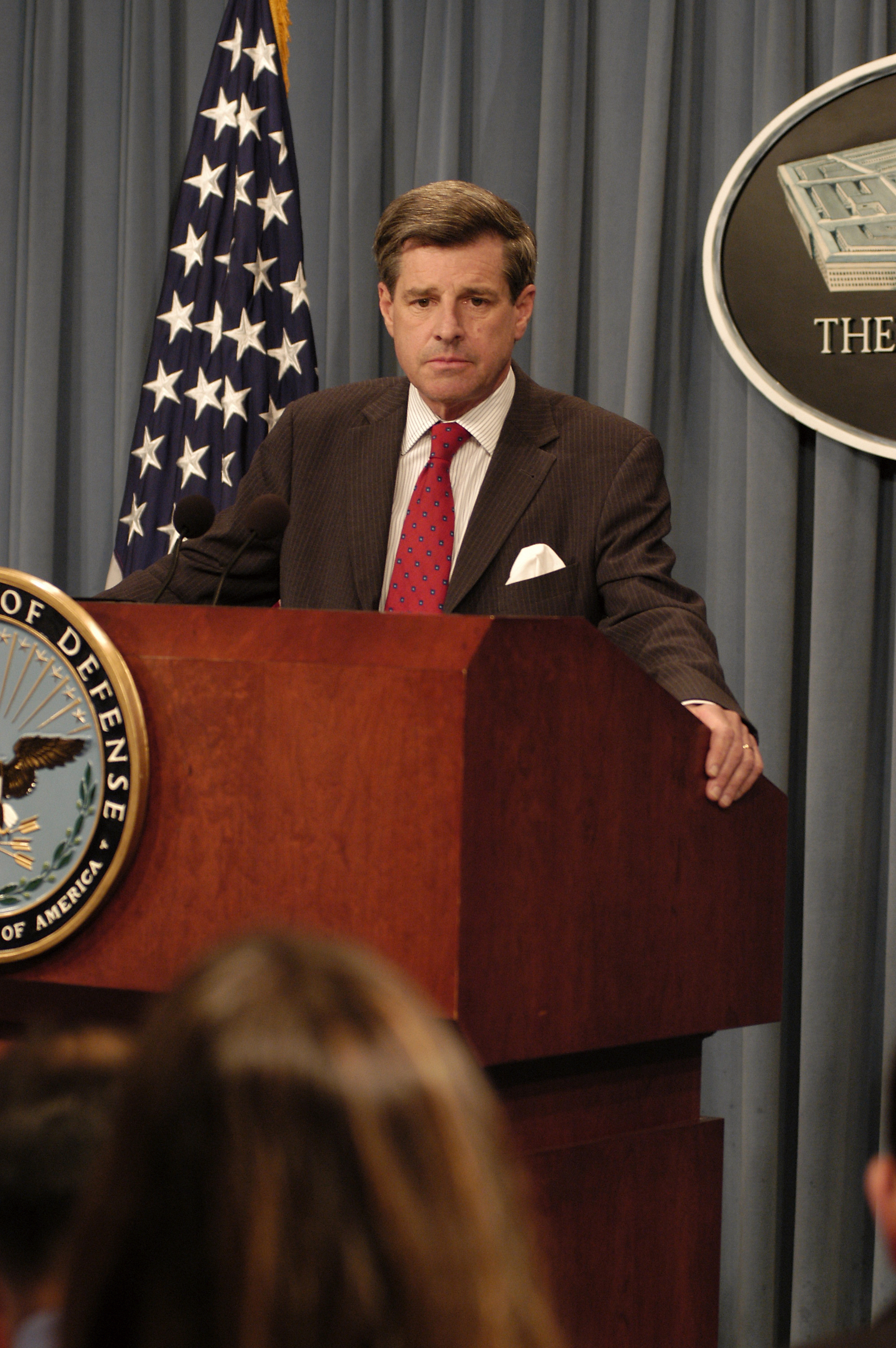 Washington, D.C. (Sept 26, 2003) -- Administrator of the Coalition Provisional Authority in Iraq, Ambassador Paul Bremer listens to a reporter's question during a Pentagon briefing. Bremer is in Washington making the case for President Bush's $87 billion budget supplemental. DoD photo by Helene C. Stikkel. (RELEASED)